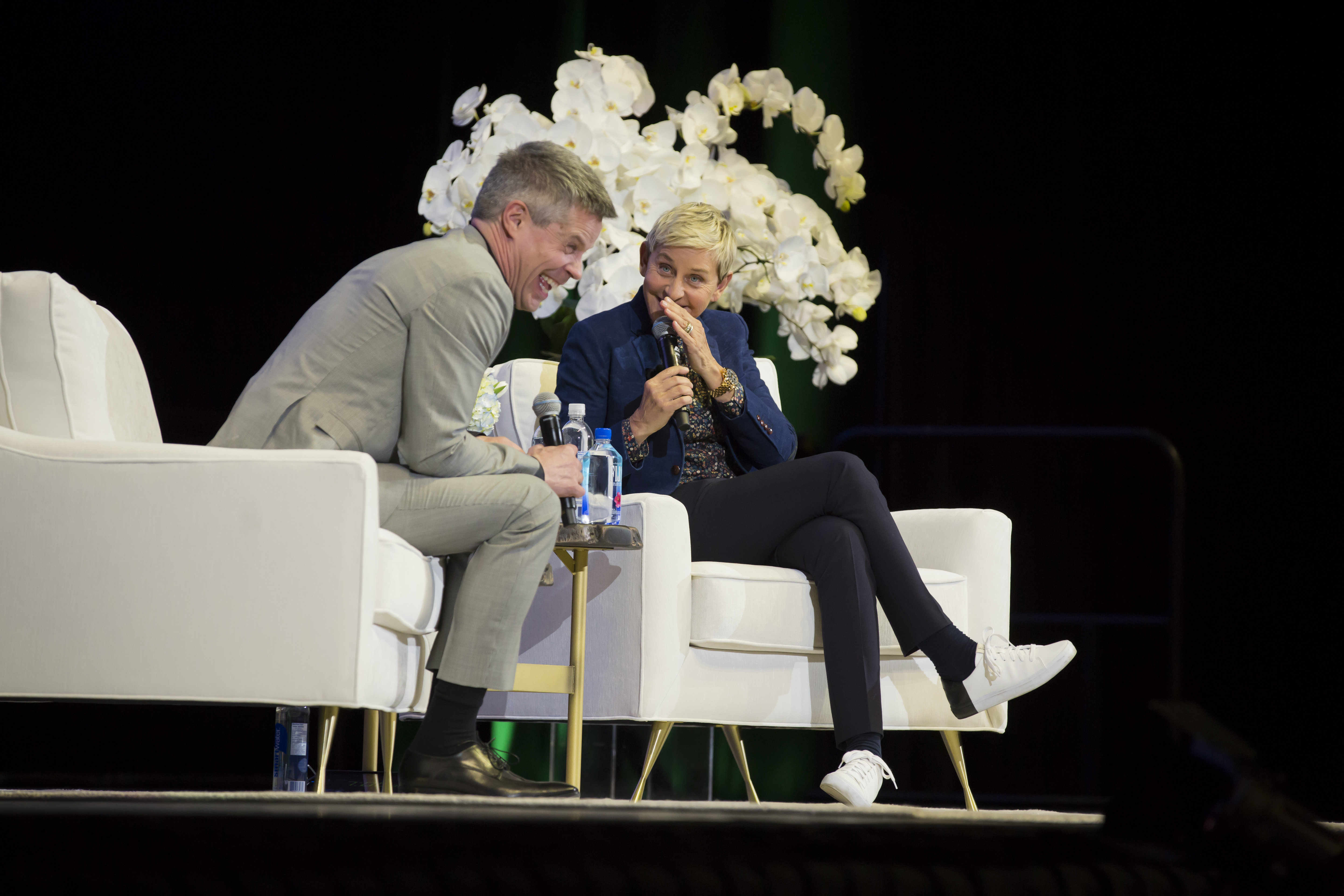 Dave Kelly and Ellen